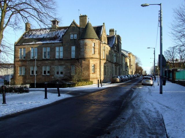 Coplaw Street Viewed from Pollokshaws Road.